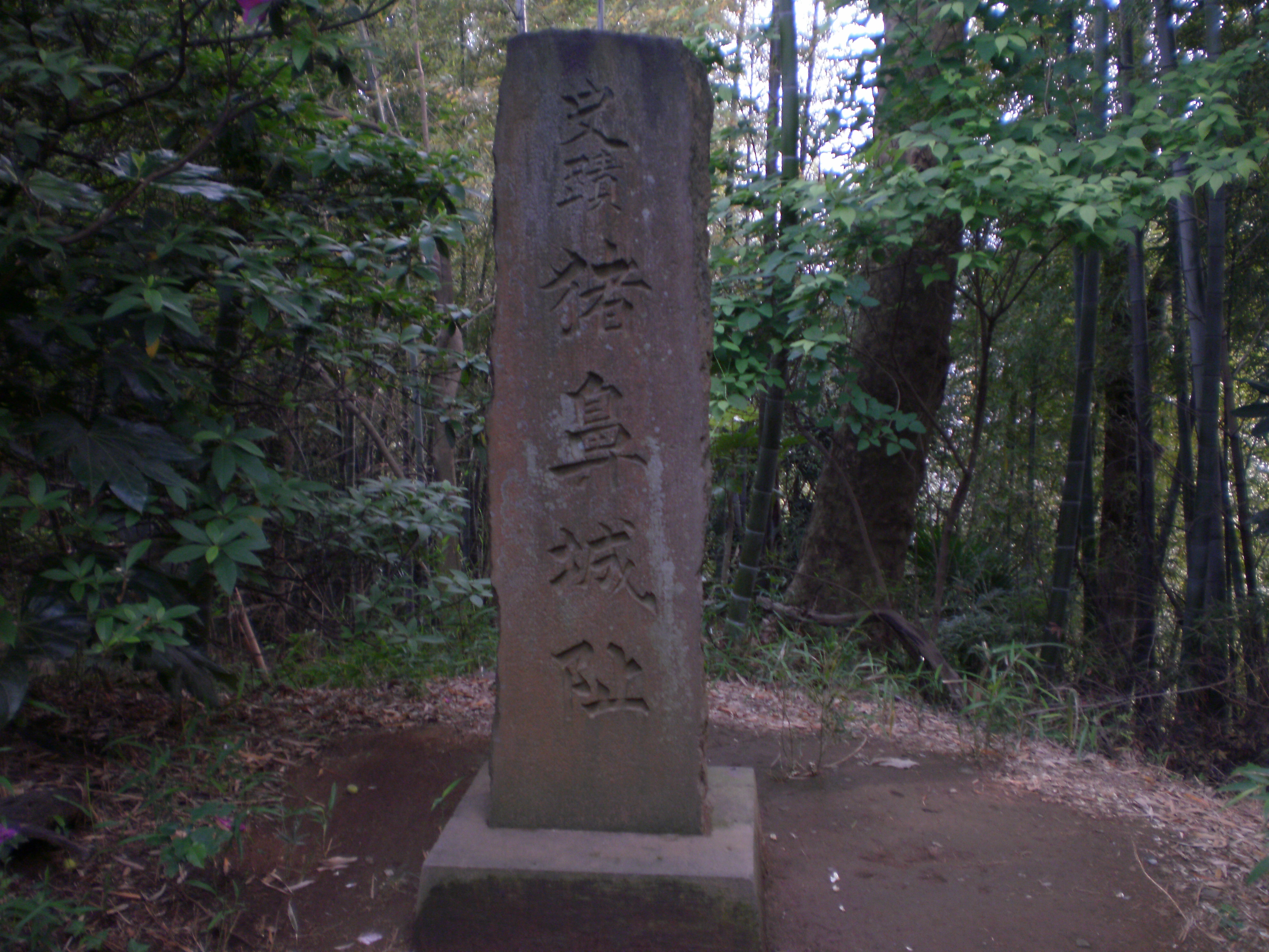 The monument of historicspot InohanaCastle in the inohanamountain.